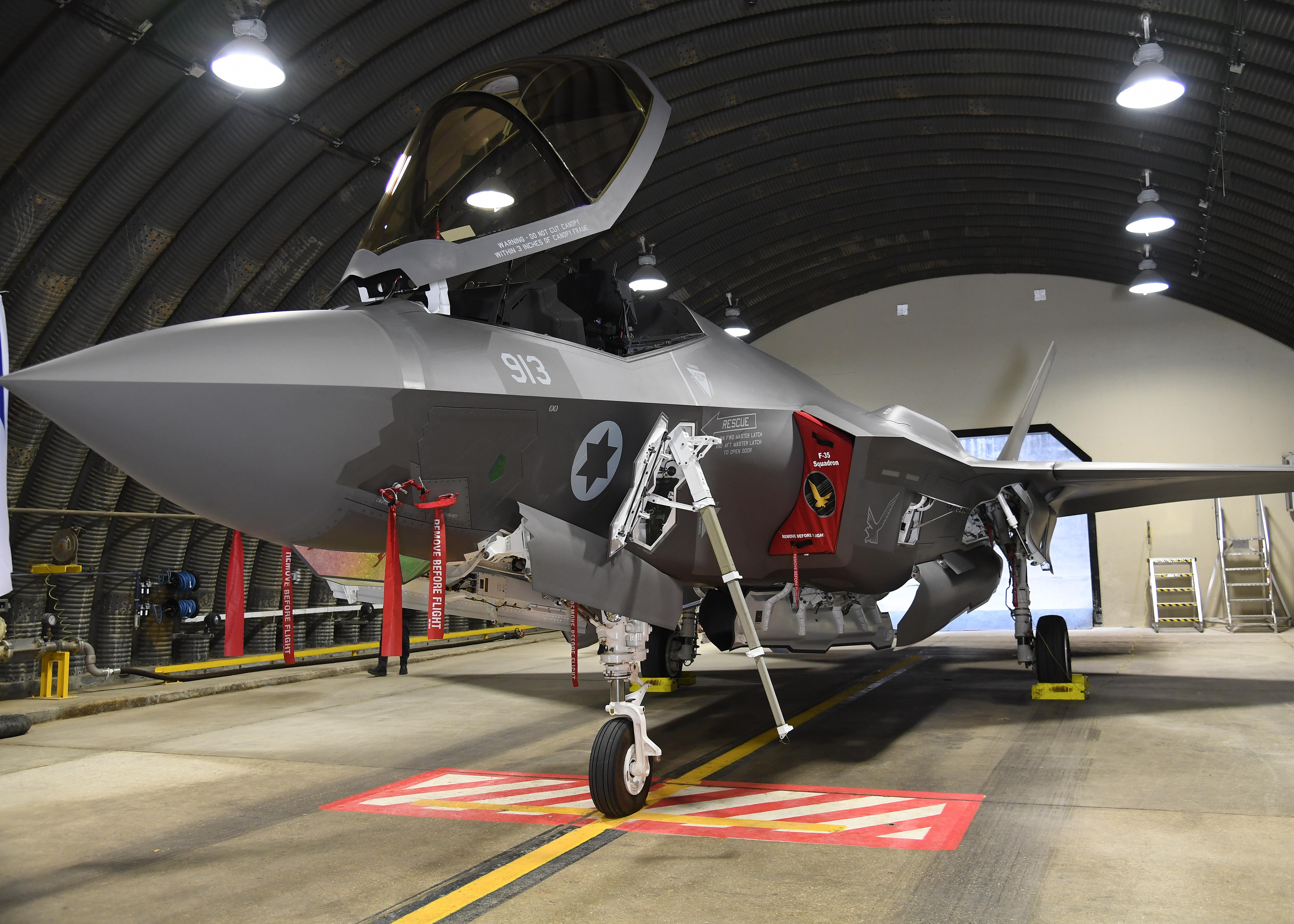 Ambassador David Friedman visited Nevatim Air Base in Southern Israel and toured the Israeli Air Force squadron operating the F-35i “Adir,” Monday, December 11, 2017. He was accompanied by commander of the base Brig. Gen Eyal Greenbaum and Squadron Commander “Y”. Photo credit: David Azagury U.S. Embassy Tel Aviv